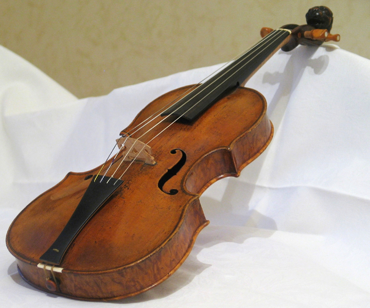 7/8 violin from 1658 by Jakob Stainer (Absam Tirol)